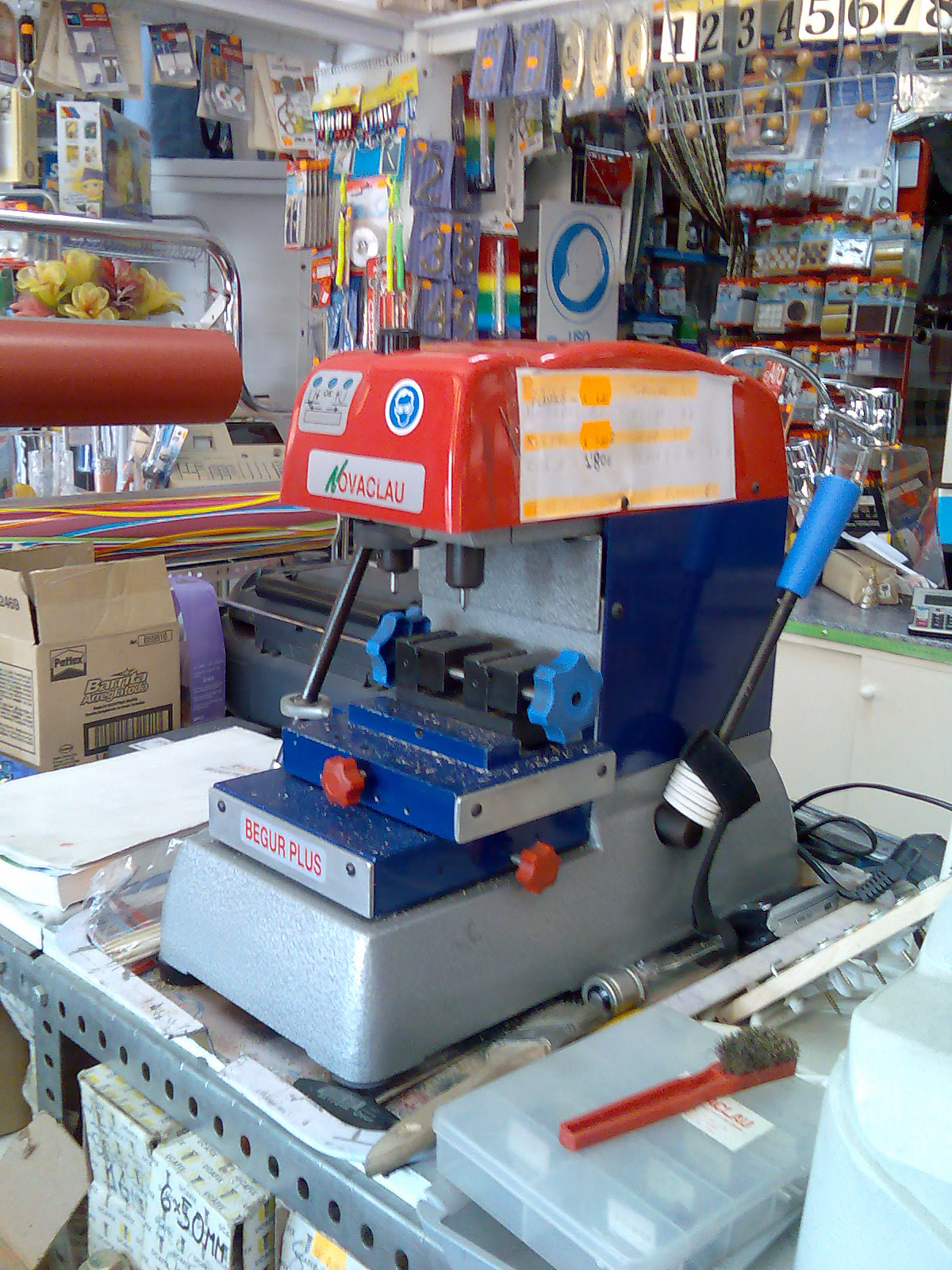 Security key cutting machine. Novaclau Begur Plus